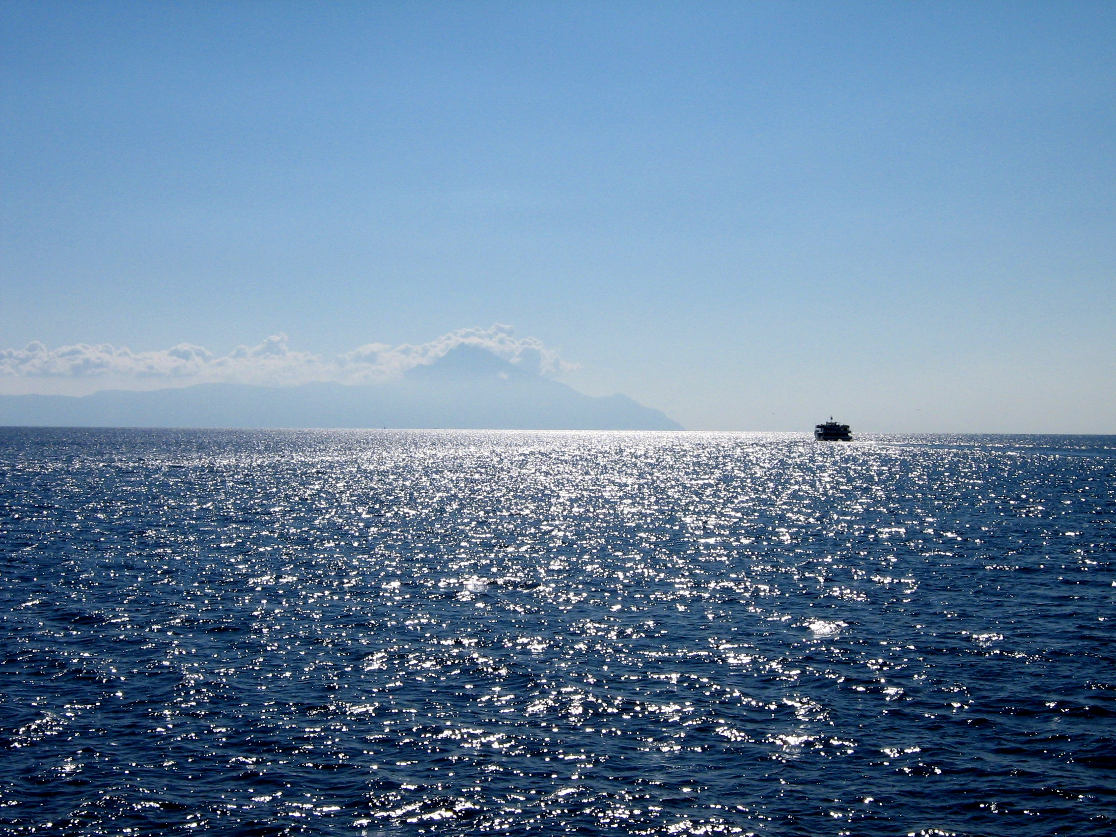 Mount Athos, view from the distance